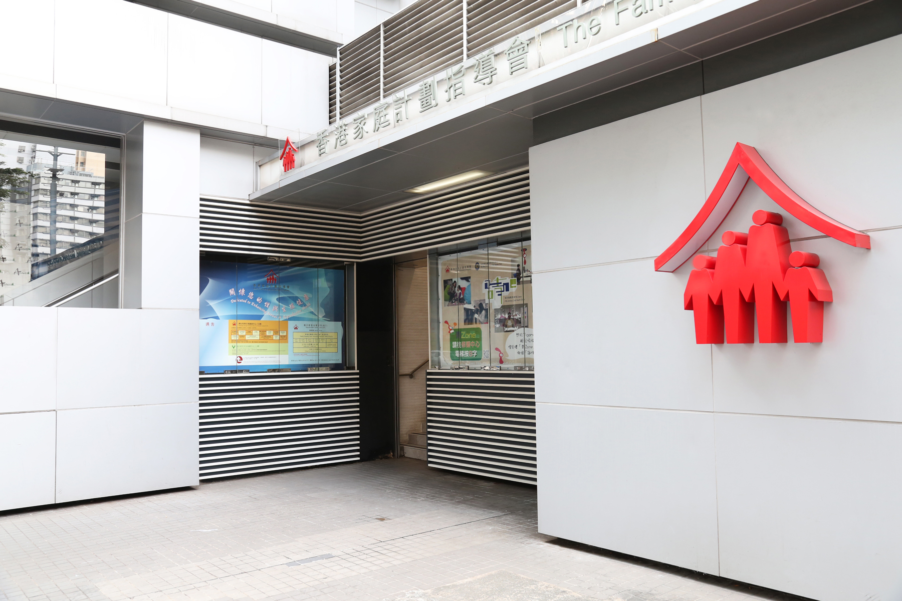 The entrance of Wan Chai Clinic